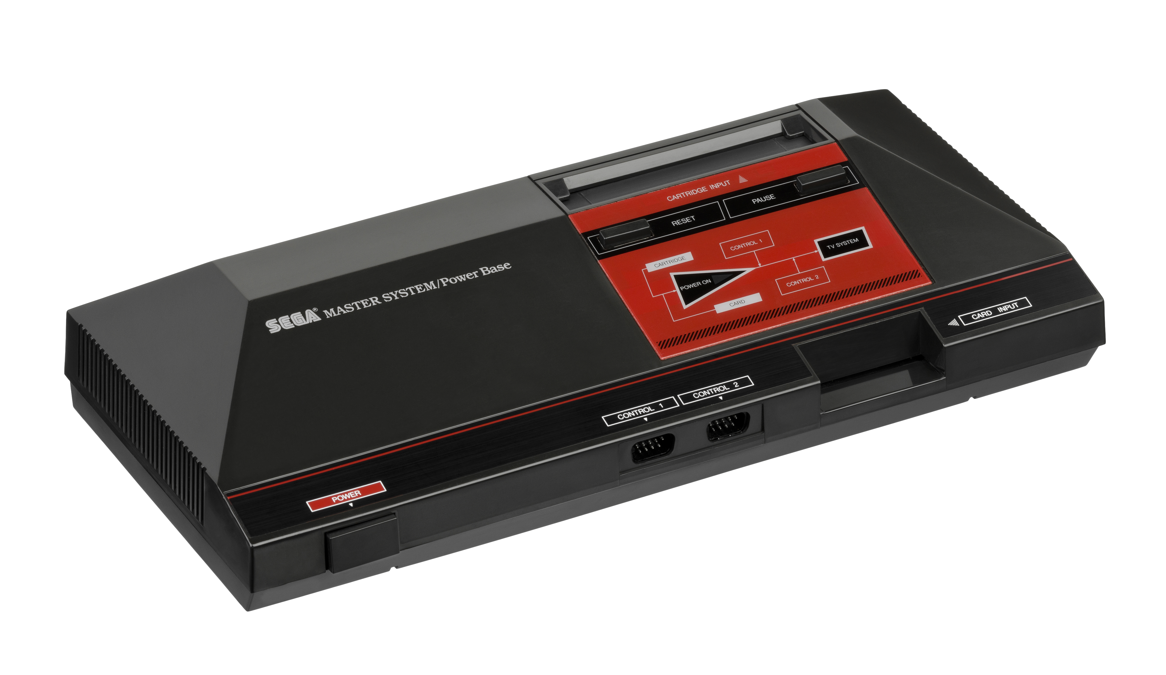 The Sega Master System, a 2nd generation video game console by Sega that was released worldwide beginning in 1986. An upgraded revision of the Sega SG-1000, it was the first Sega console to release in North America. The system had better graphics than the competing Nintendo NES, but was not successful in the US. It was much more popular in Europe and South America.